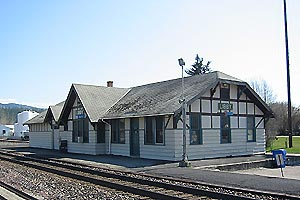 Train station in Libby, Montana, United States